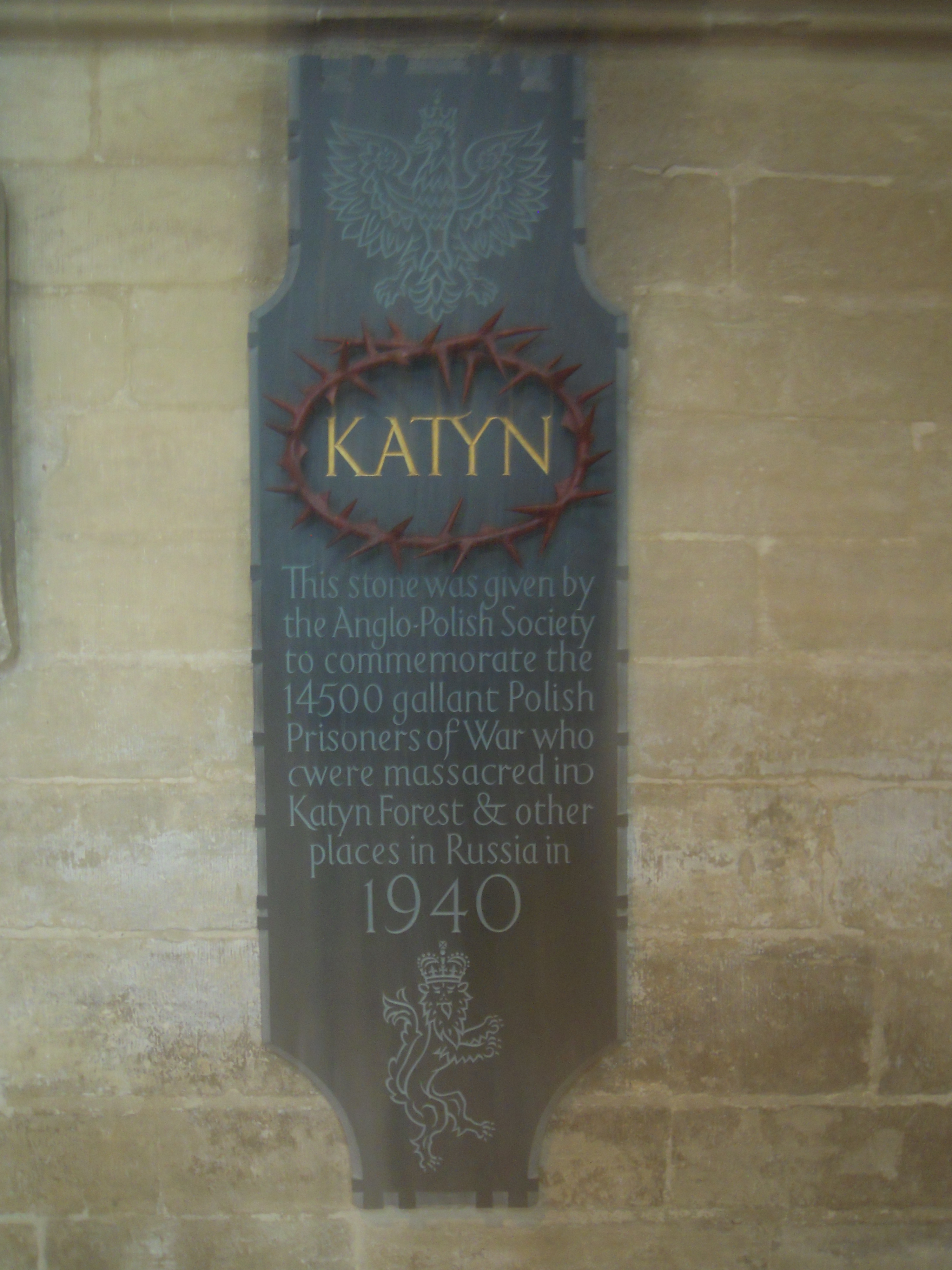 A memorial to the victims of the Katyn massacre in Southwell Minster. The memorial was designed by Ronald Sims